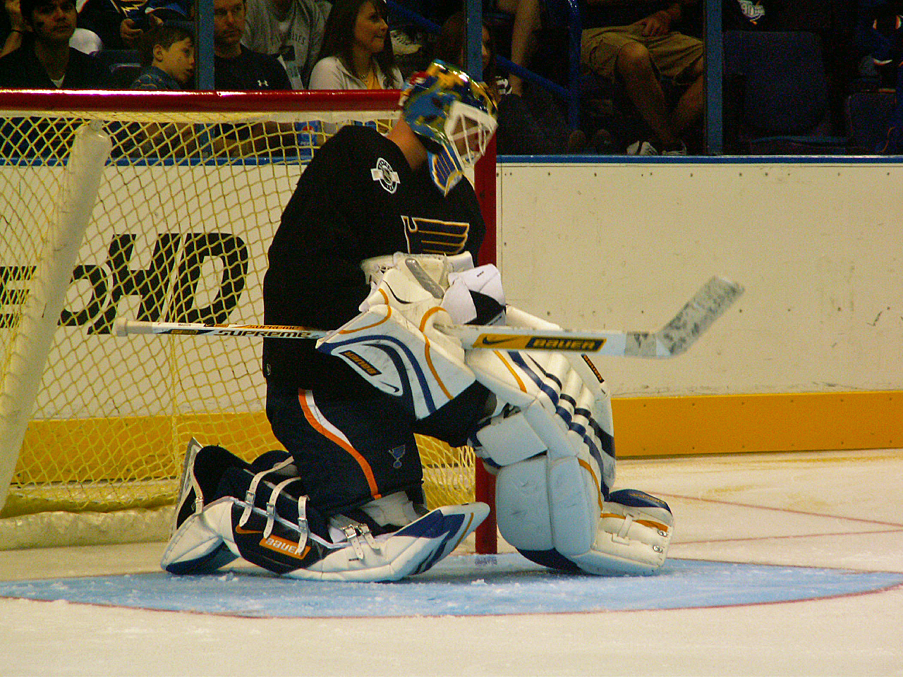 Chris Mason at the 2008 Blues FanFest.